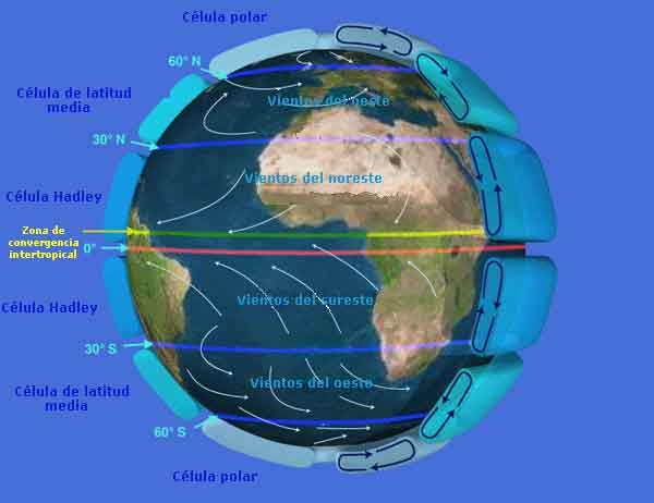 Global circulation of Earth's atmosphere displaying Hadley cell, Ferrell cell and polar cell (see discussion page first). Photocredit